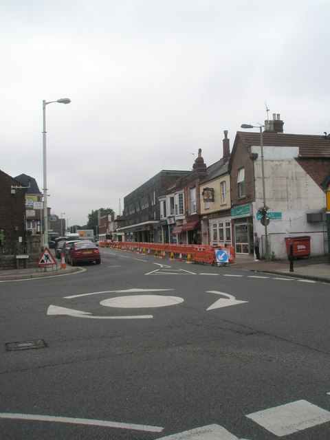 Mini-roundabout in Havant town centre At the junction of North Street and Market Parade.